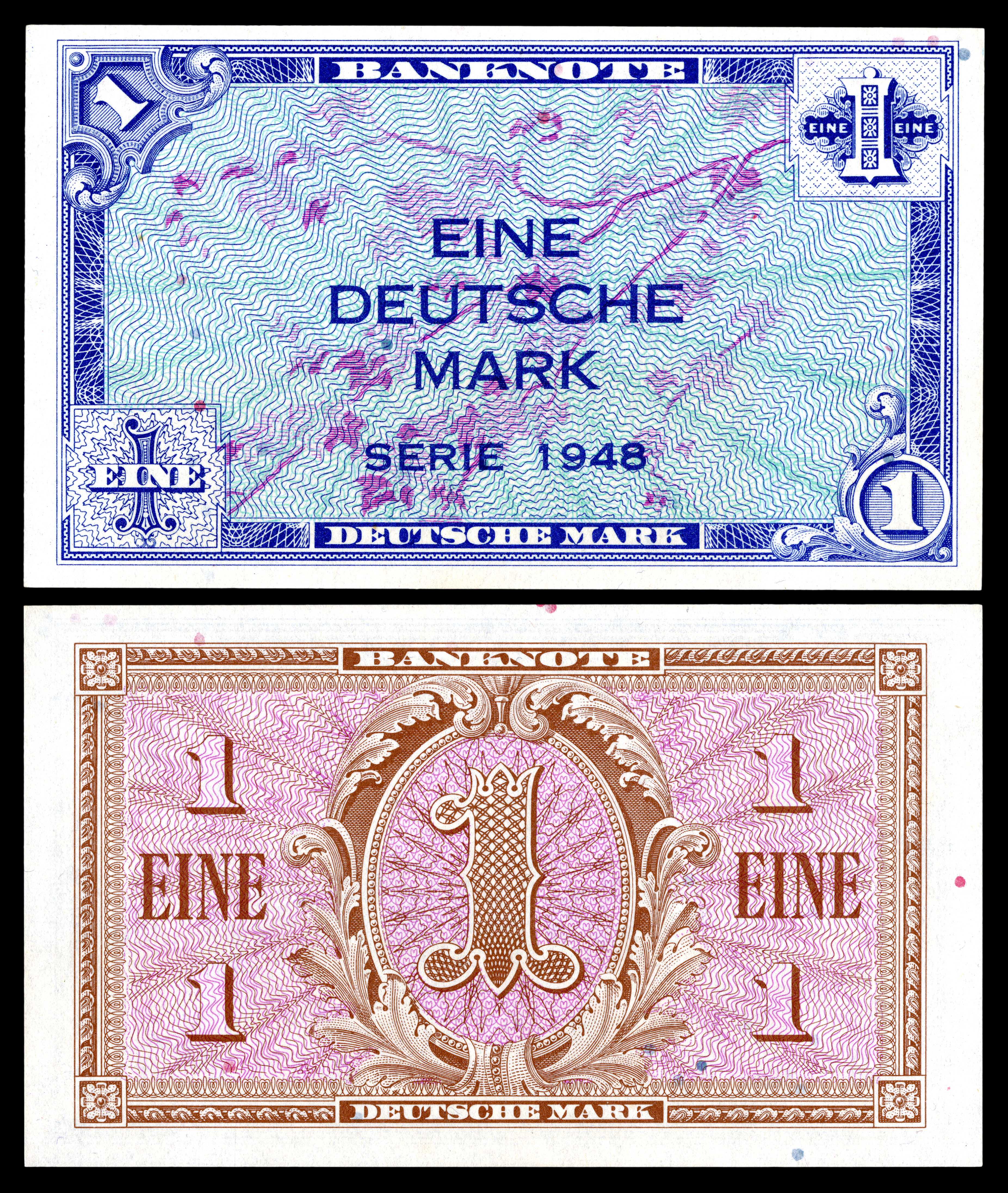 One Deutsche Mark (1948), post WWII Allied occupied Federal Republic of Germany (West Germany). Circulated by the United States Army Command, this was the first of three 1948 issues of West German currency.